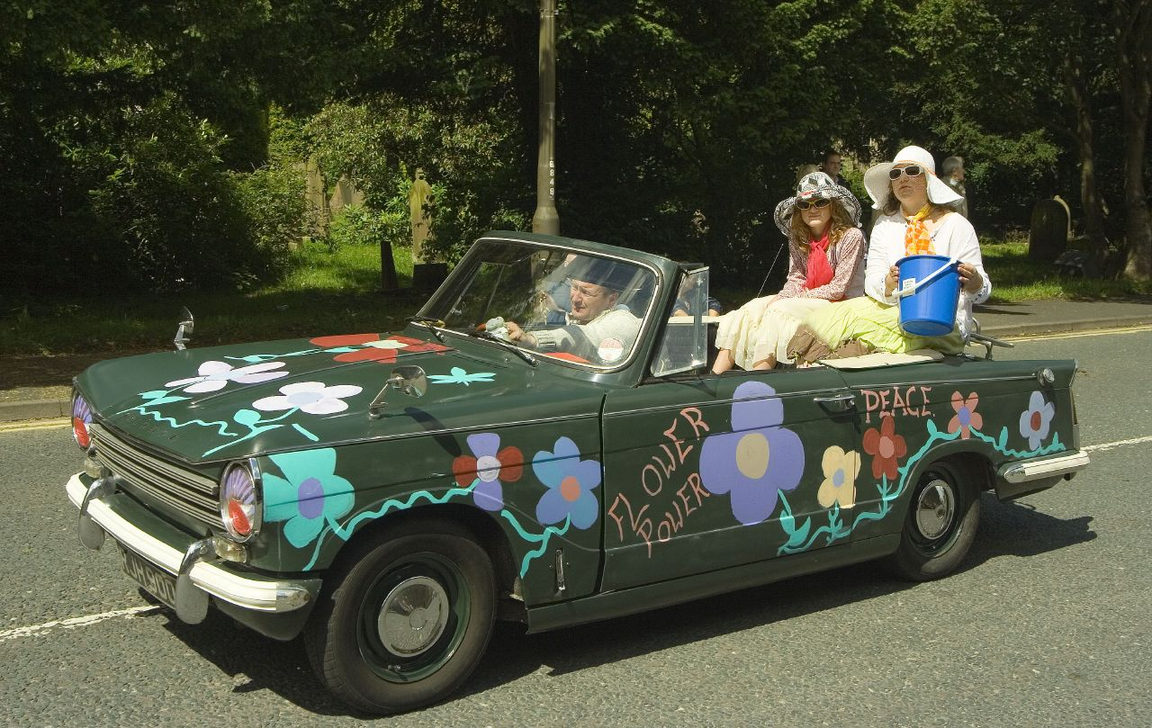 "Heralding" the end of Flower Power? Buxton?